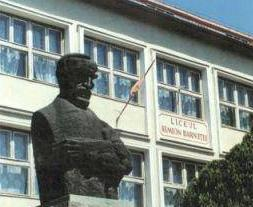 Simion Bărnuţiu National College